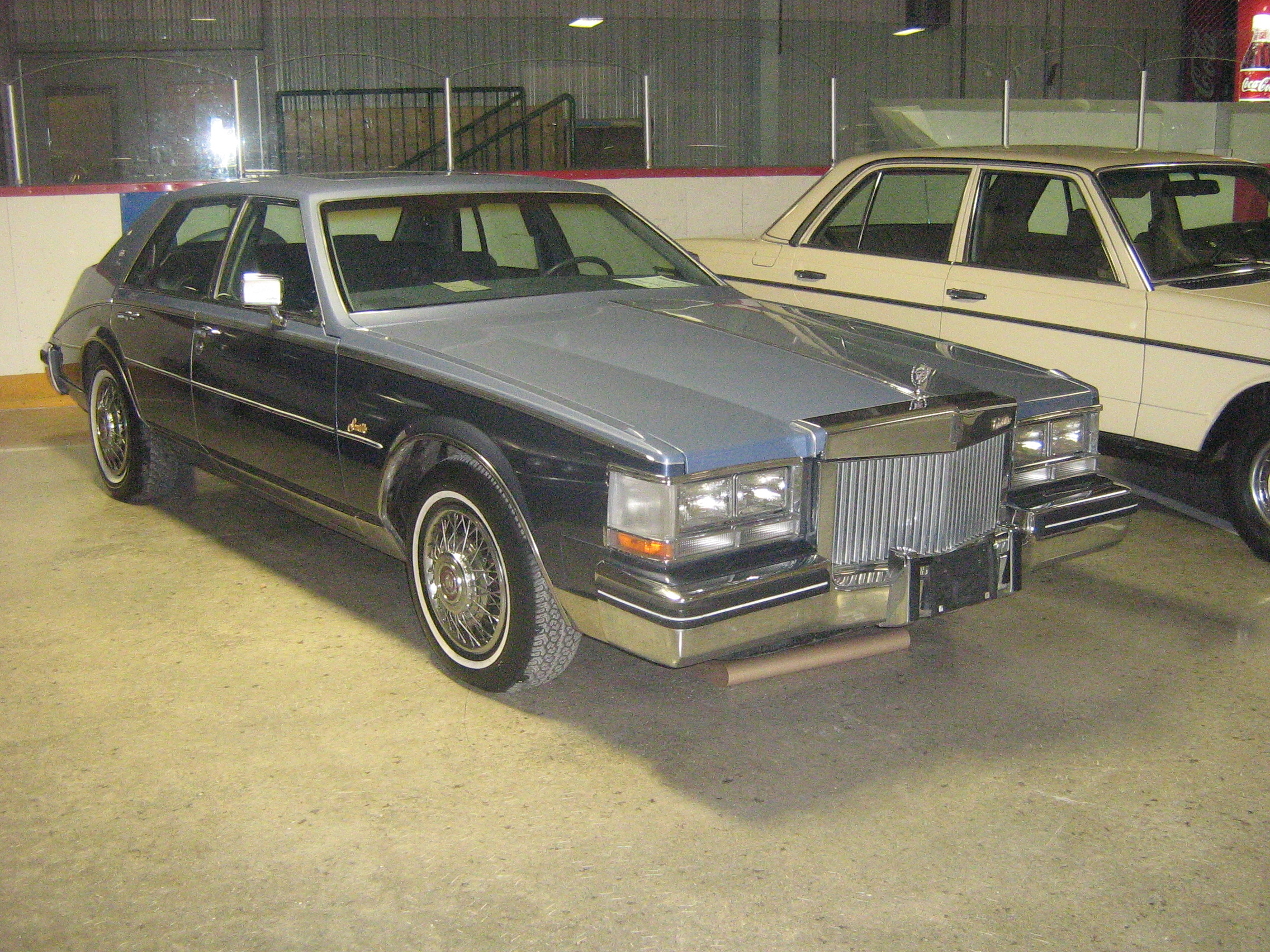 This 1984 Cadillac Seville Elegante belonged to a friend of mine - I drove it though the auction for him. Got decent money I thought.